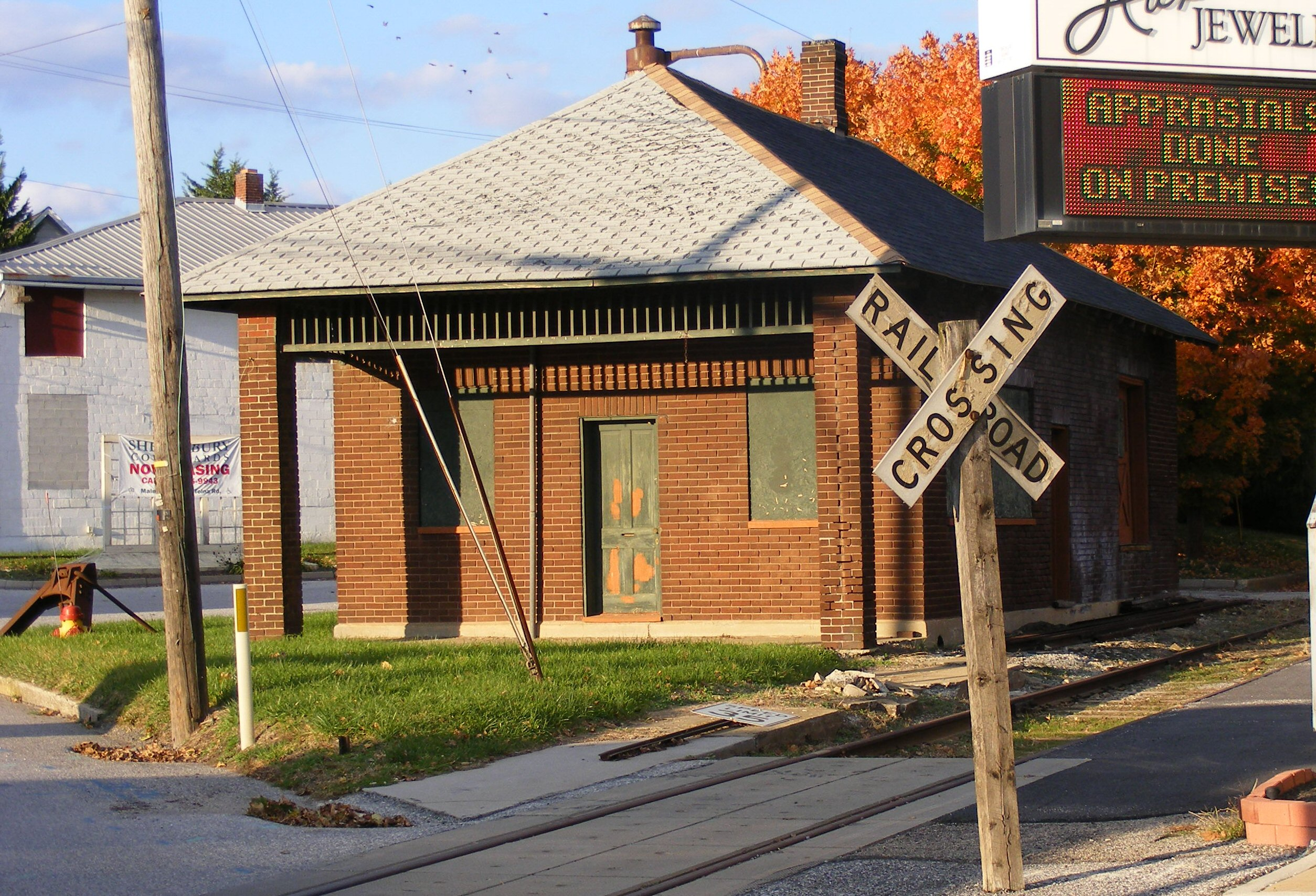 Shrewsbury PA Railroad Station, Main Street, on National Register of Historic Places in York County, PA